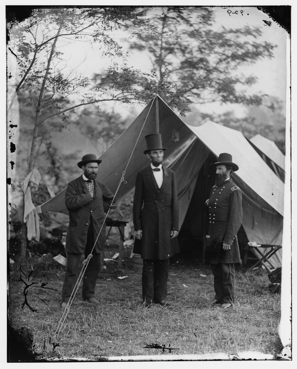 At the outset of the U.S. Civil War, Mathew Brady dispatched a team of photographers to document the conflict. Among them was a Scottish-born immigrant named Alexander Gardner, the photographer who took this photo of Lincoln at Antietam as well as other famous wartime shots. The man to Lincoln's right is Allan Pinkerton, founder of the Pinkerton National Detective Agency, whom Lincoln had as head of a personal security detail during the war. Gardner titled another shot of Pinkerton and his brother William at Antietam “The Secret Service.” Gardner photographed Lincoln on seven separate occasions, the last one on February 5, 1865, only a few weeks before Lincoln’s assassination. In 1866 he published Gardner’s Sketchbook of the War, combining plates and text, commemorating such battles as Fredericksburg, Gettysburg, and Petersburg, but the book was a commercial failure. Photographic historians also have suggested that Gardner staged many of his photos, moving dead bodies and using a regular prop gun to create romanticized pictorial narratives.